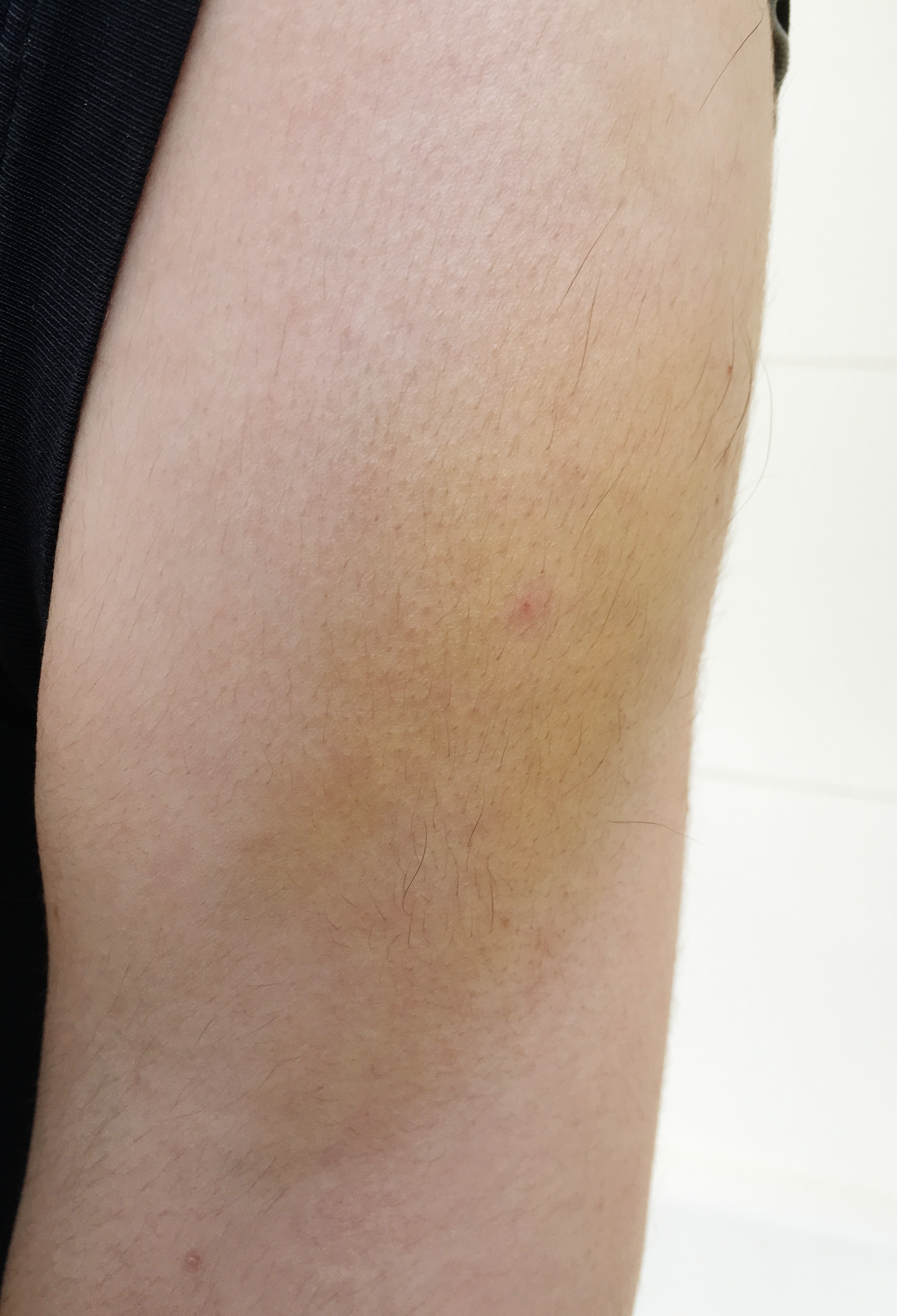 Hematoma caused during a vaccination.